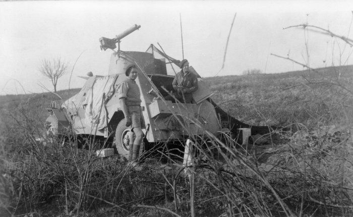 New Zealand soldiers and an armoured car with Vickers machine gun, in Greece, during World War 2. From left to right: unidentified, Snowy Nicholas. Photographer unidentified.Note on back of file print reads: "An armoured car of the type used by the NZ Div Cav in delaying actions during the withdrawal in Greece."